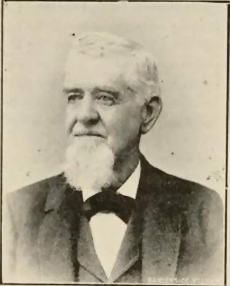 Judge Lucius Salisbury, founder of Salisbury, Missouri. Photo first published in 1896.